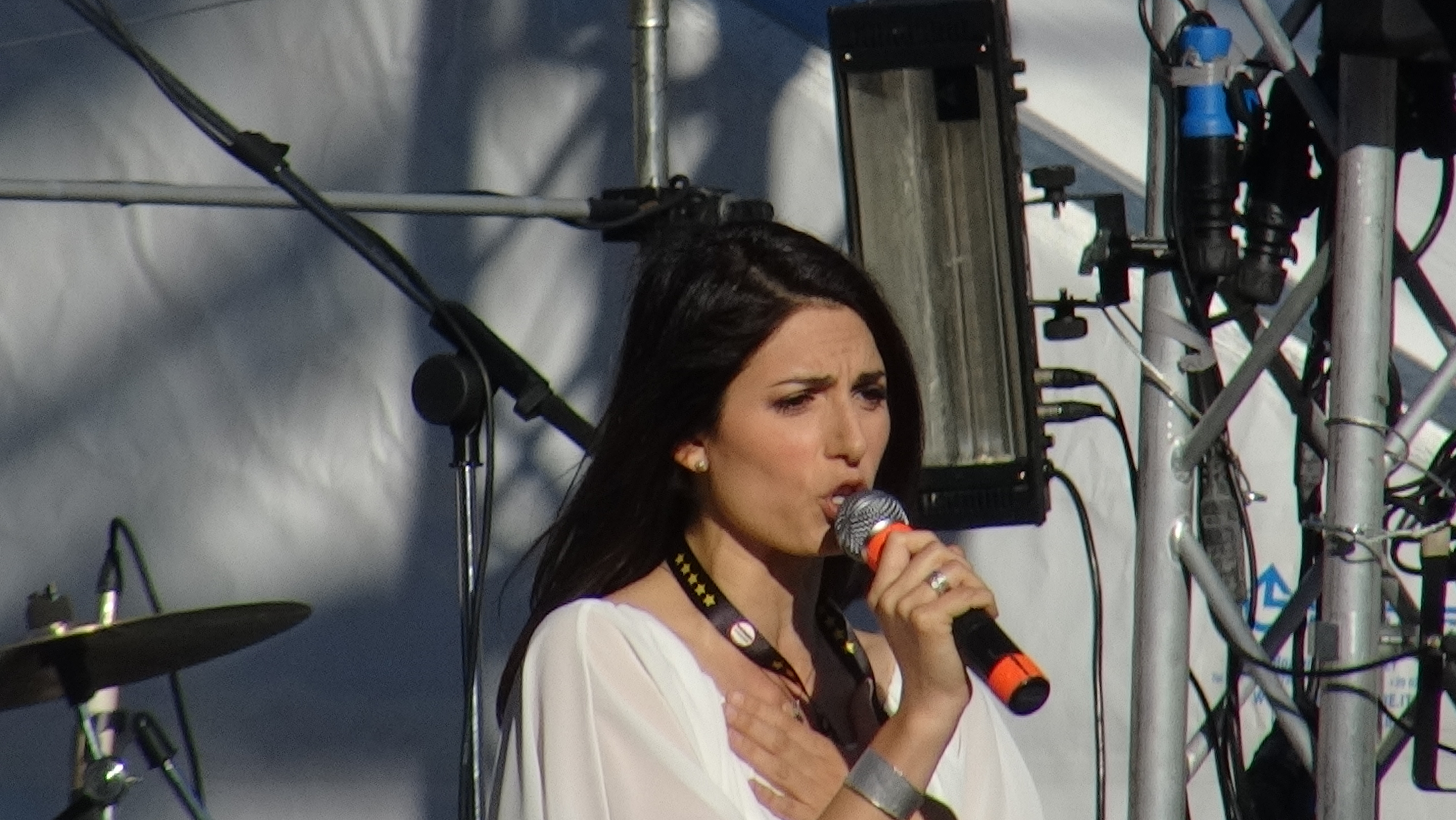 Virginia Raggi